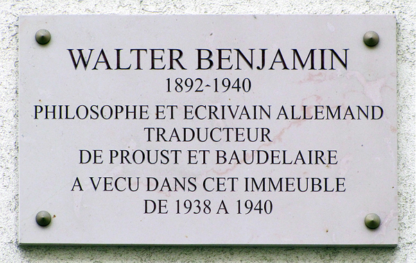 Walter Benjamin - Plaque, 10 rue Dombasle, 75015 Paris, France, raised in 2007 by Anne Hidalgo, Deputy Mayor of Paris. Walter Benjamin, German philosopher and writer, has lived in this place from 1938 to 1940 before fleeing the Gestapo and suicide in Portbou (Spain), near the French border.